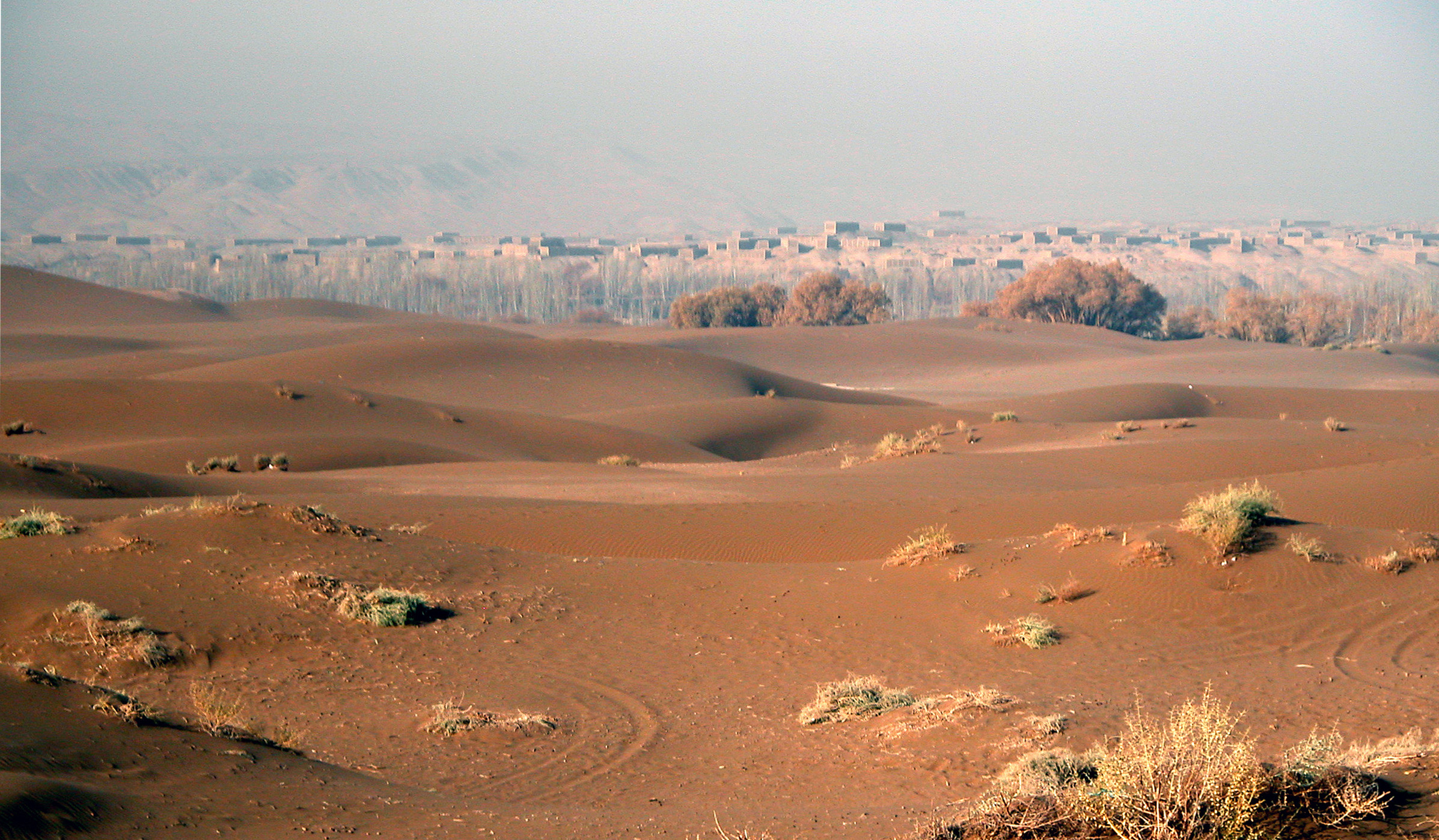 Chunche (drying chambers for raisin production) in the background and the Turpan dune field southwest of Shanshan City, Turpan Prefecture, Xinjiang.